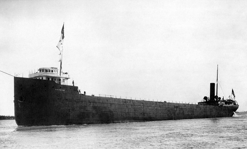 The steamer Cyprus before she sank